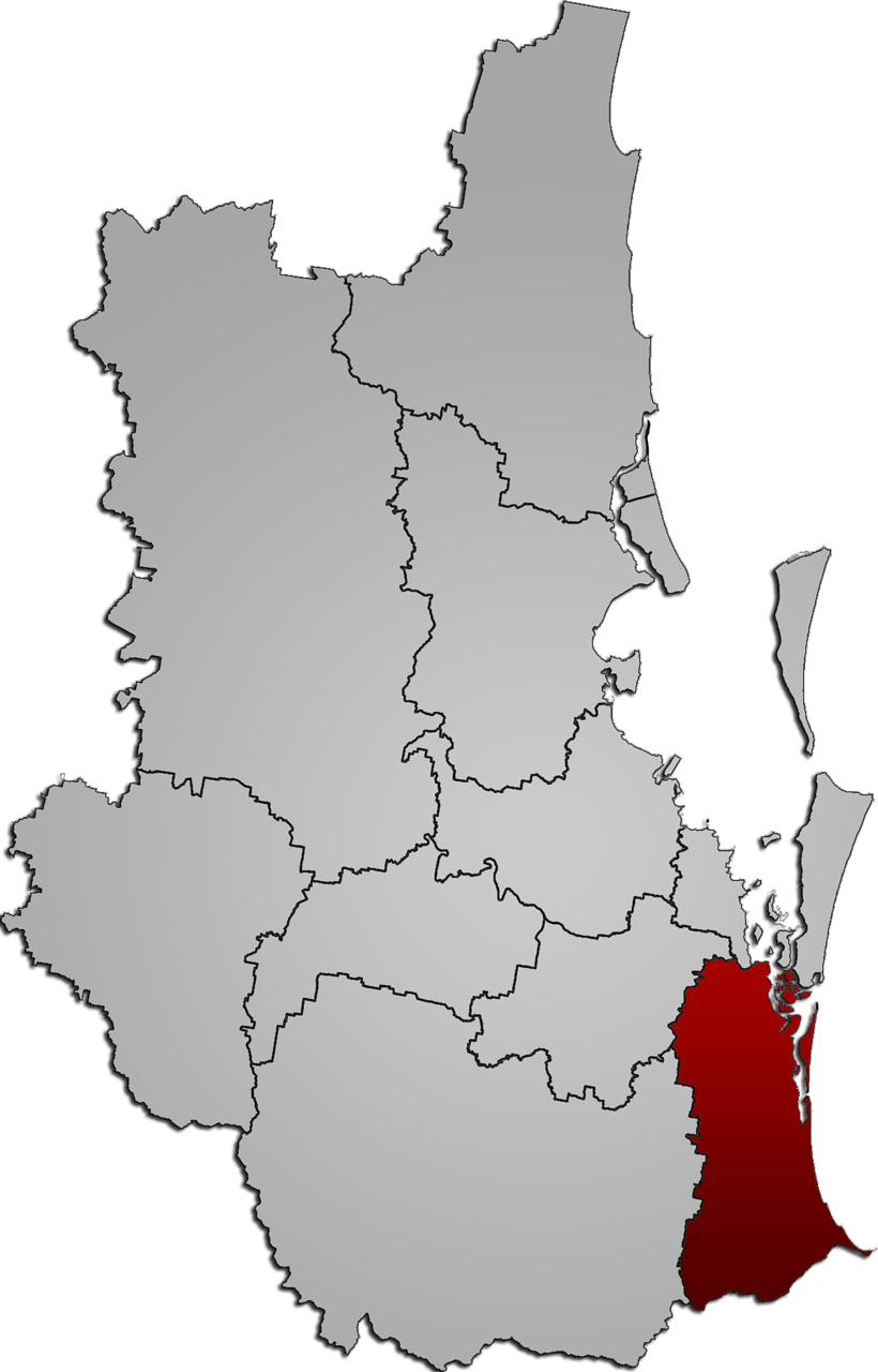 Gold Coast City Council from 15 March, 2008